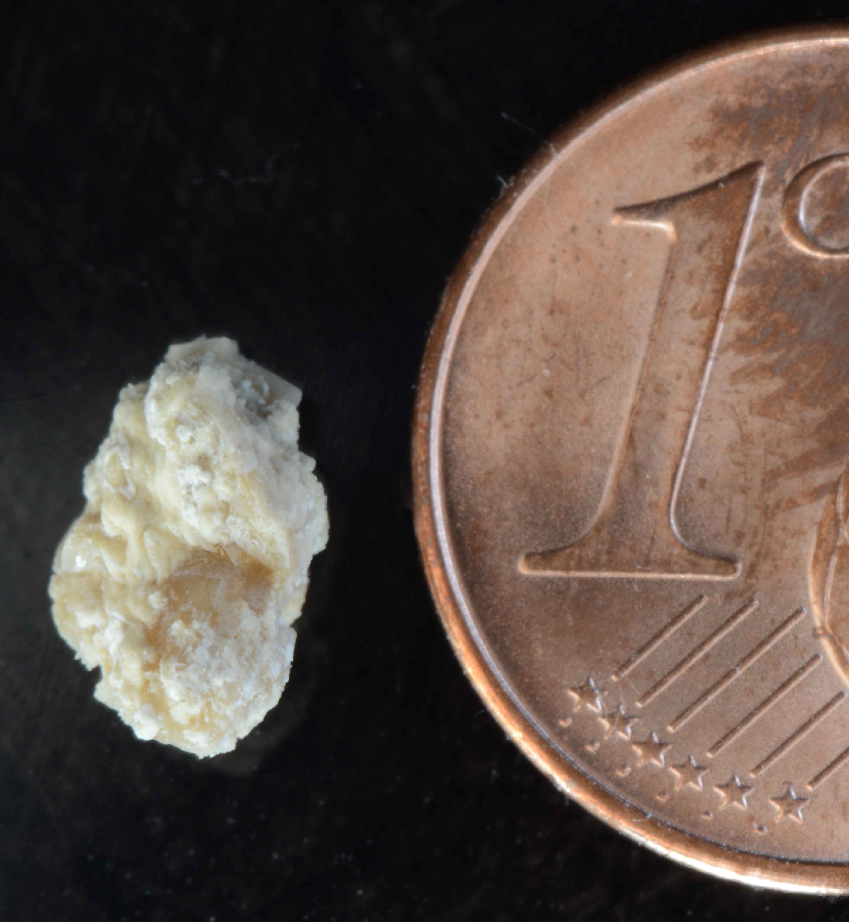 Kidney stone